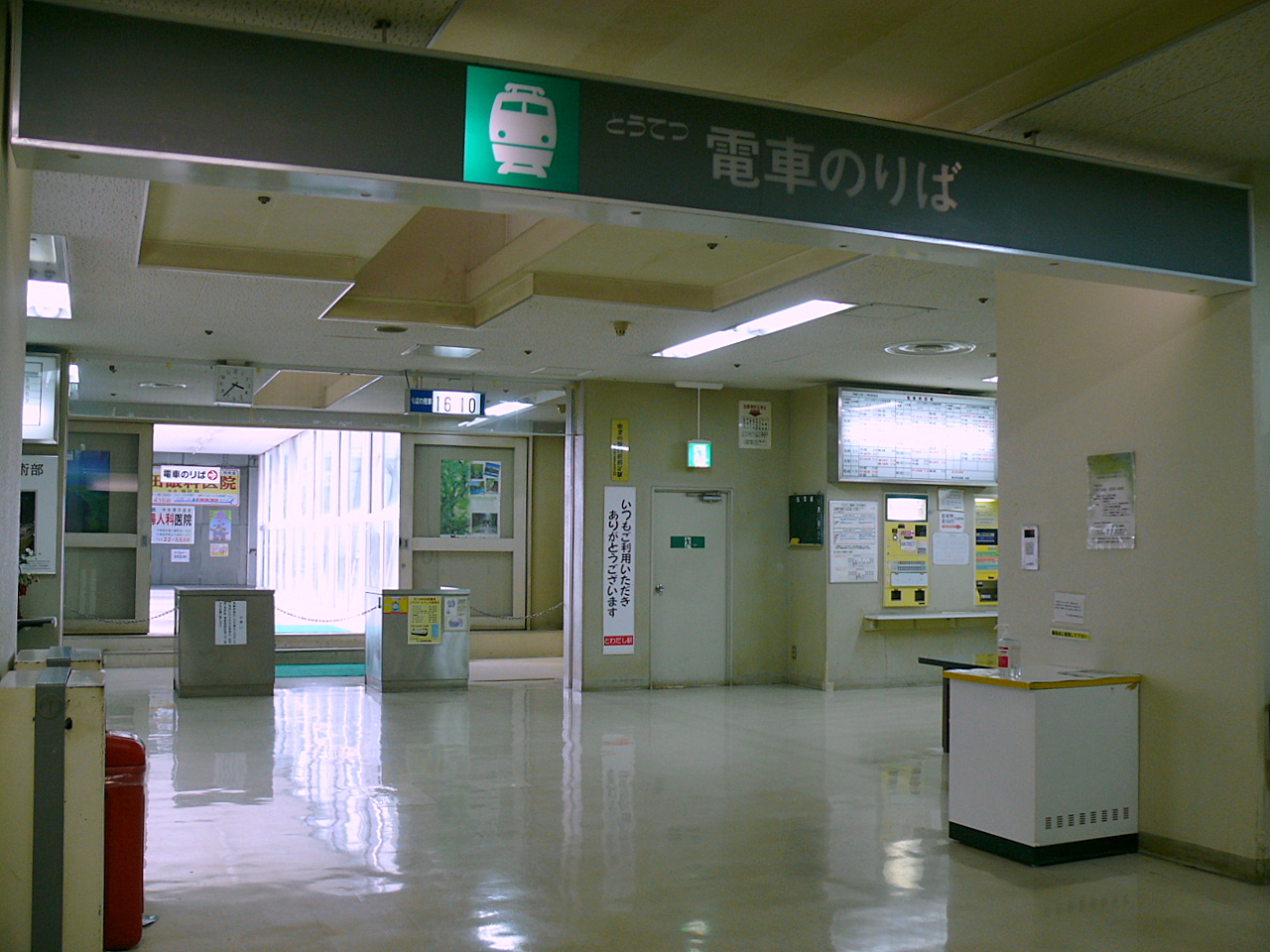 Towada Kanko Electric Railway Towadashi Station Ticket gate.(Japan Aomori of Towada City).